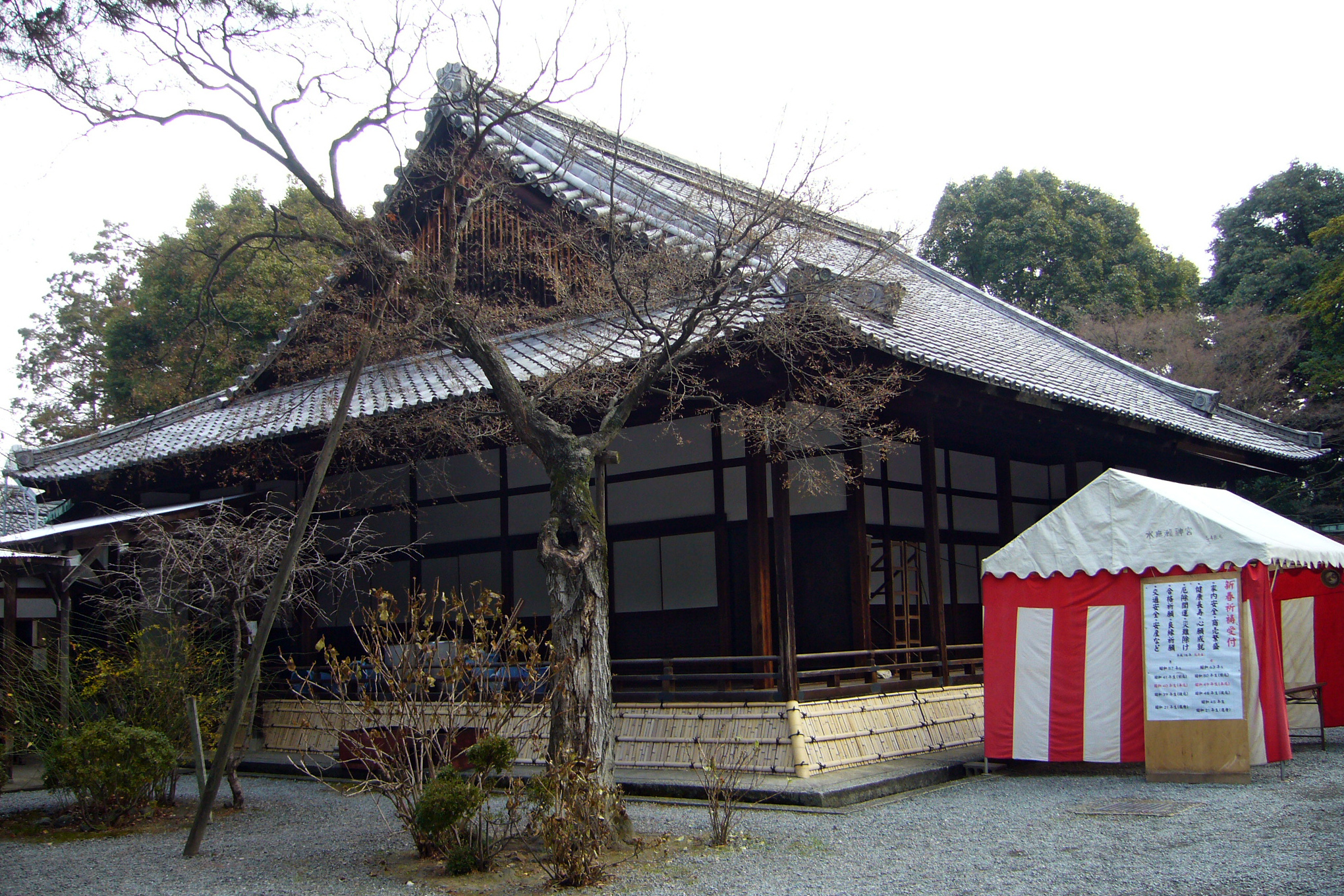 Minase-jingu in Shimamoto, Osaka prefecture, Japan